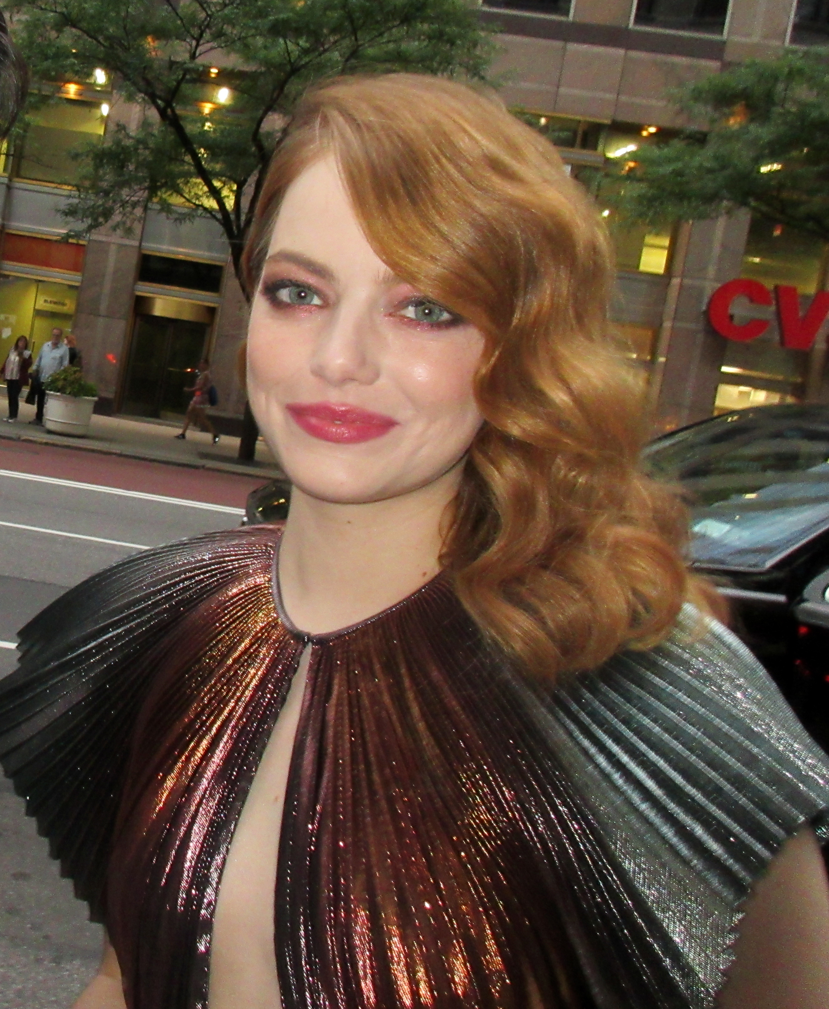 Star of Superbad, Easy A, Zombieland, The Amazing Spider-Man, Birdman, La La Land, Maniac, and Battle of the Sexes. NYC Sept. '18.